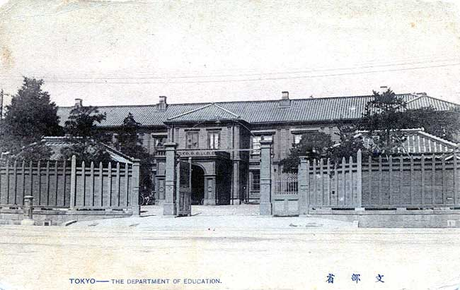 Commemorative postcard of Japanese Ministry of Education, circa 1890s